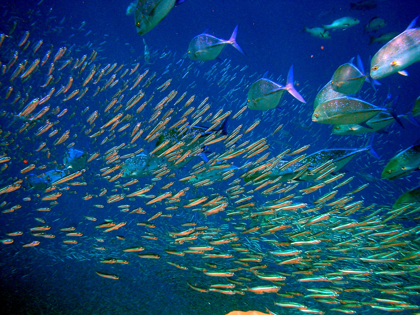 An underwater picture taken in Moofushi Kandu, Maldives, showing predator bluefin trevally sizing up schooling anchovies